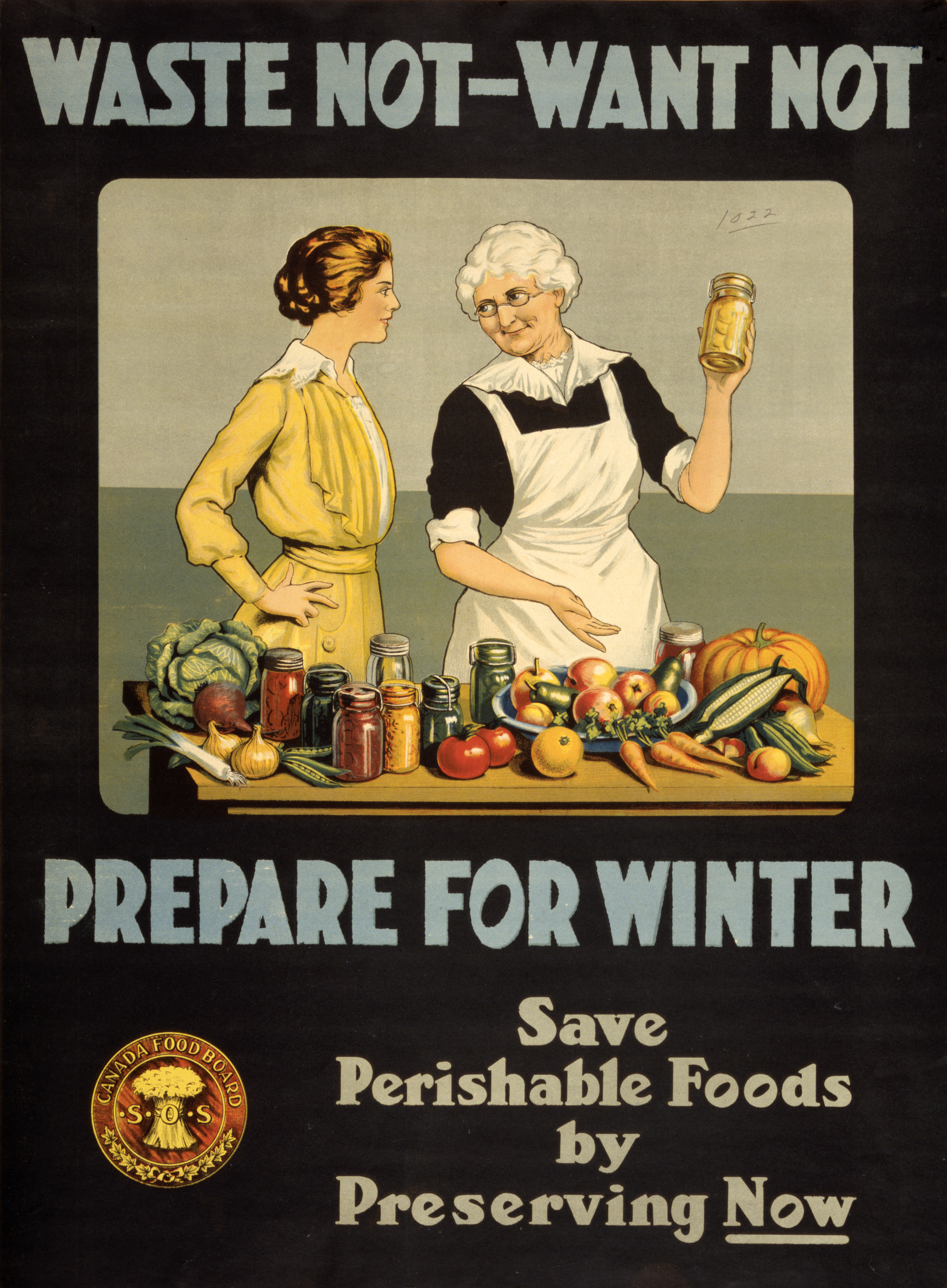 World War I poster. "Waste not, want not. Prepare for winter. Save perishable foods by preserving now."